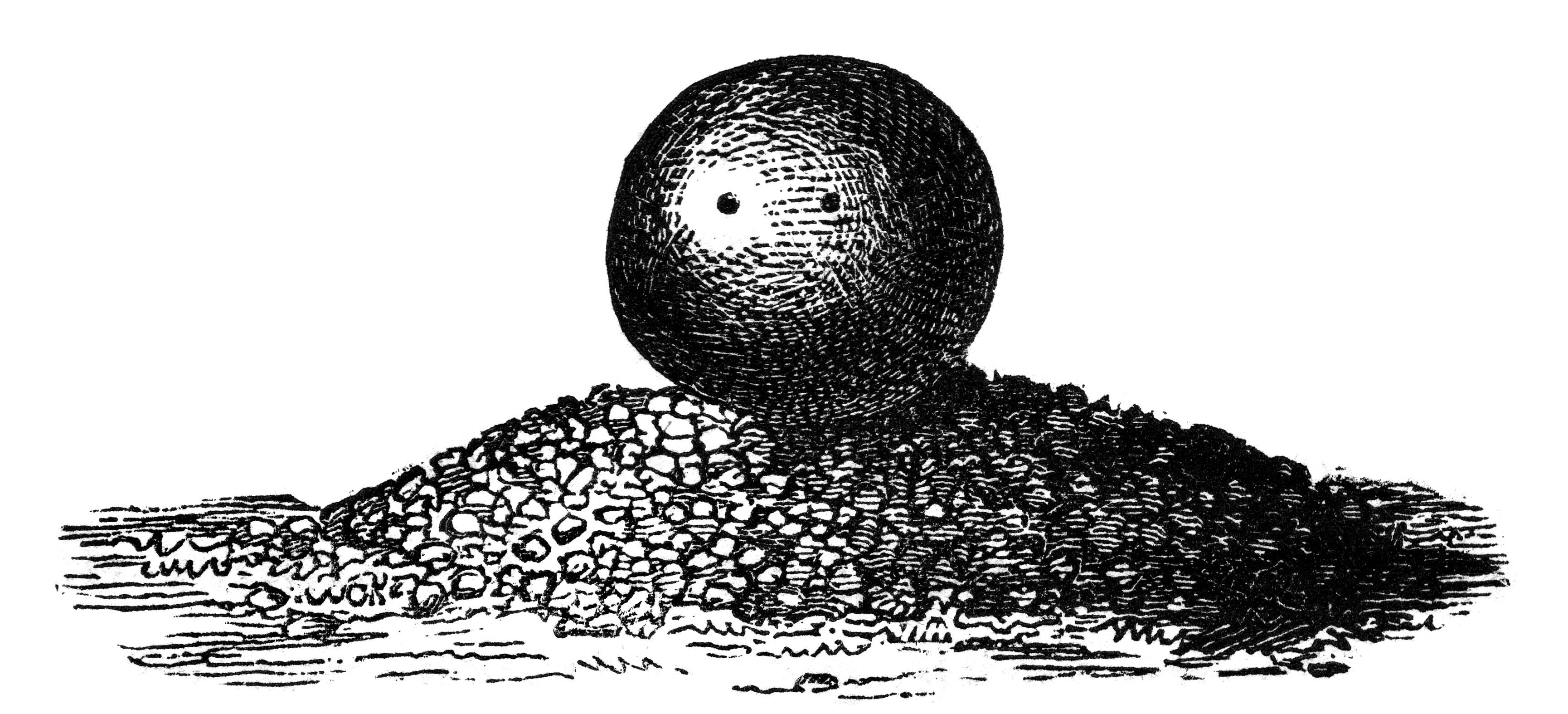 An ancient monument in Folkeslunda in Långlöt parish, Borgholm municipality, Öland, Sweden. Illustration from page 149 in Wärend och Wirdarne (1864) by Gunnar Olof Hyltén-Cavallius.